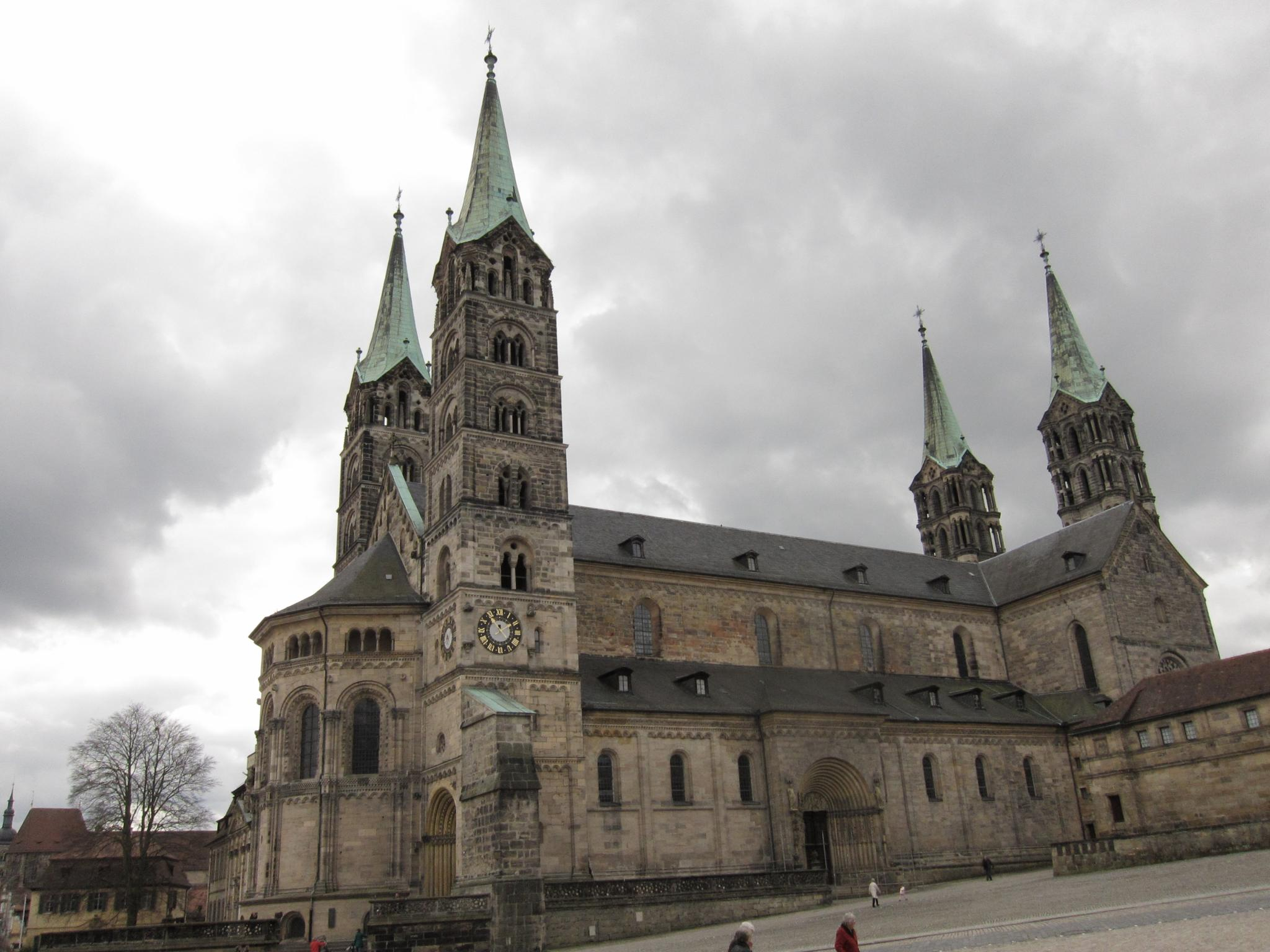 Bamberg, Cathedral